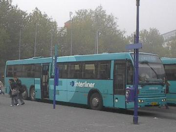 Den Oudsten B89 Alliance (15 m) bus in Zwolle, Netherlands. This image was copied from . The original description was: Interliner in Zwolle, eigen foto